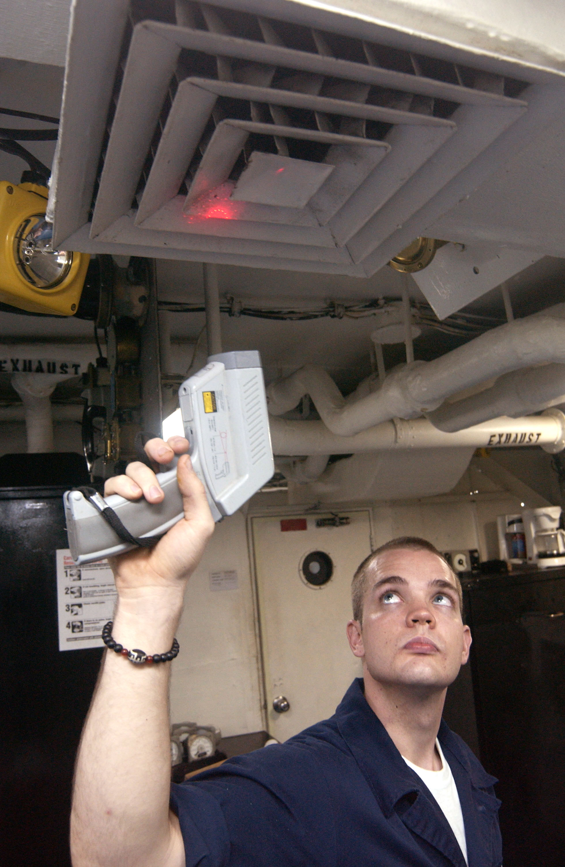 Pyrometer. 040824-N-1485H-004 Pacific Ocean (Aug. 24, 2004) - Fireman Jason Ormand of Yukon, Okla., checks the temperature of a ventilation system while conducting a routine trouble call aboard the aircraft carrier USS Kitty Hawk (CV 63). Ormand, who is assigned to the air conditioning and repair shop helps maintain eight air conditioning machinery spaces. Kitty Hawk is currently under way in the 7th Fleet area of responsibility (AOR) as the ship demonstrates power projection and sea control as the world's only permanently forward-deployed aircraft carrier, operating from Yokosuka, Japan. U.S. Navy photo by Photographer's Mate 3rd Class Lamel J. Hinton (RELEASED)